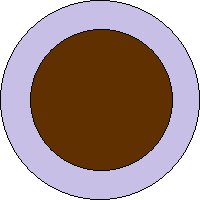 A Giant Planet with a large solid core, consisting of rock and/or metal core surrounded by a layer of hydrogen and helium of moderate thickness. Brown: Rock and/or metal. Purple: Hydrogen and Helium.